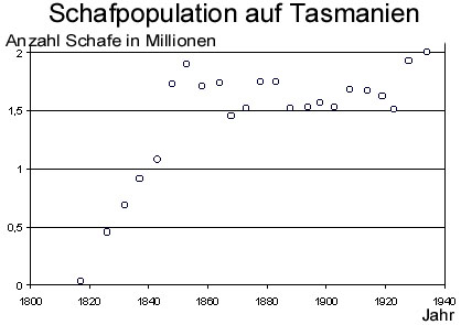 Schafspopulation